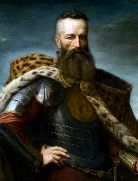 Hetman Stefan Czarniecki by Leon Kapliński (1823-1873)